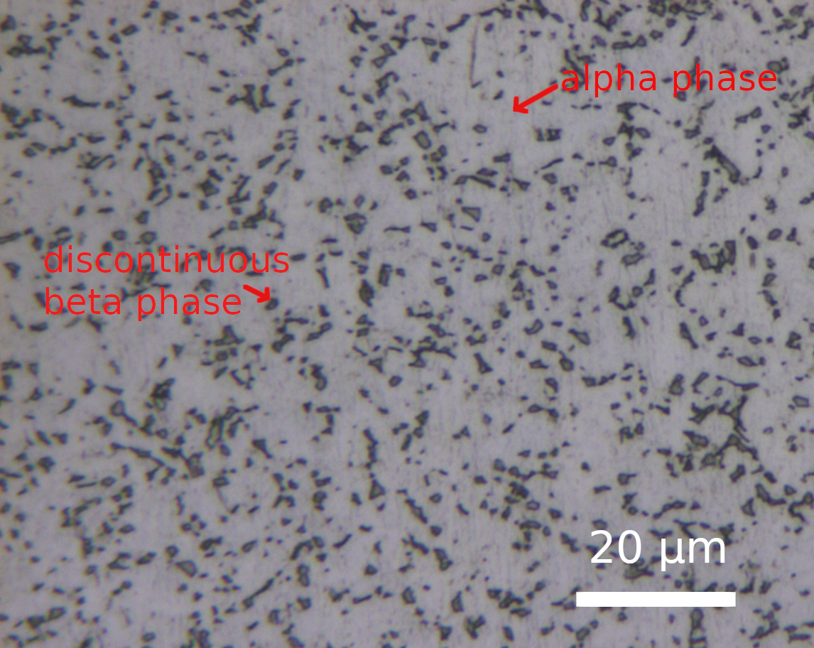 This Ti64 sample was taken from the cross-section of a 12.7 mm extruded rod. The sample was polished to a final finish using colloidal silica before being etched for 20s with a q-tip soaked in Kroll's reagent. Both the alpha and beta phases of titanium are seen. The particular microstructure is dependent upon the processing conditions.